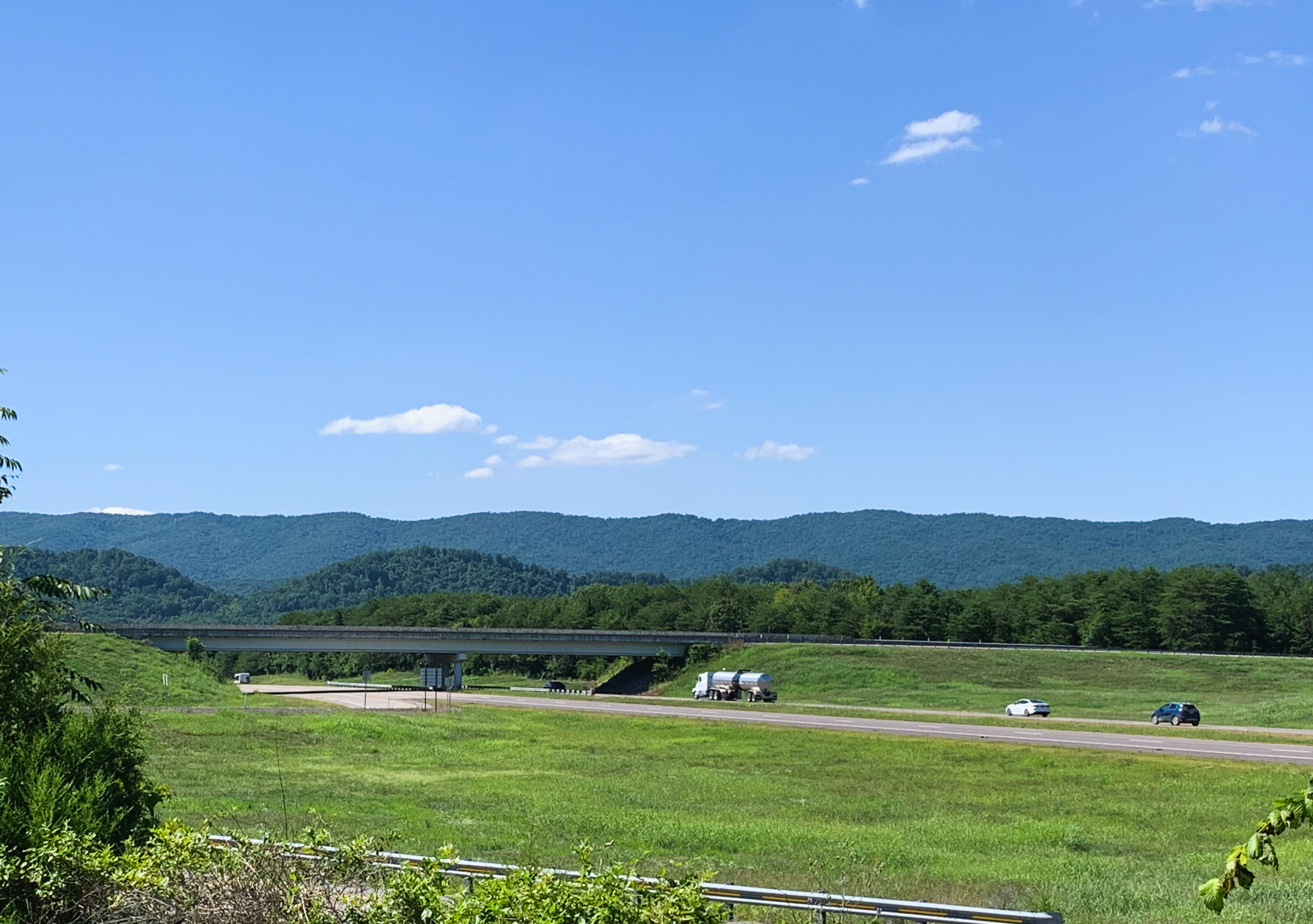 Junction of US-11W and US-25E in Bean Station, Tennessee, United States